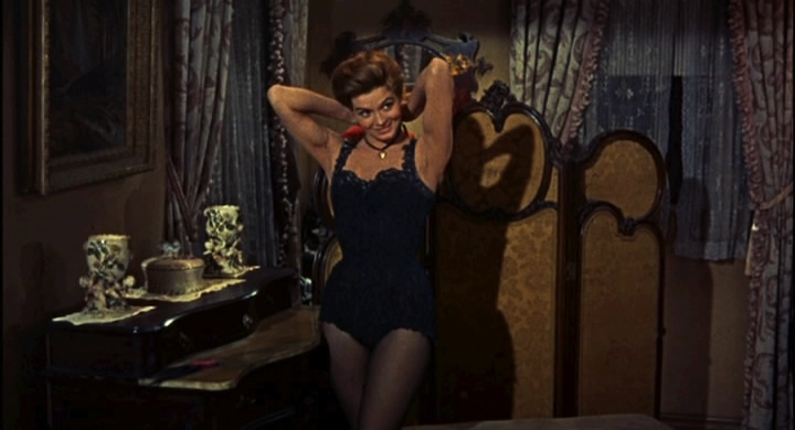 Cropped screenshot of Angie Dickinson from the trailer for the film Rio Bravo